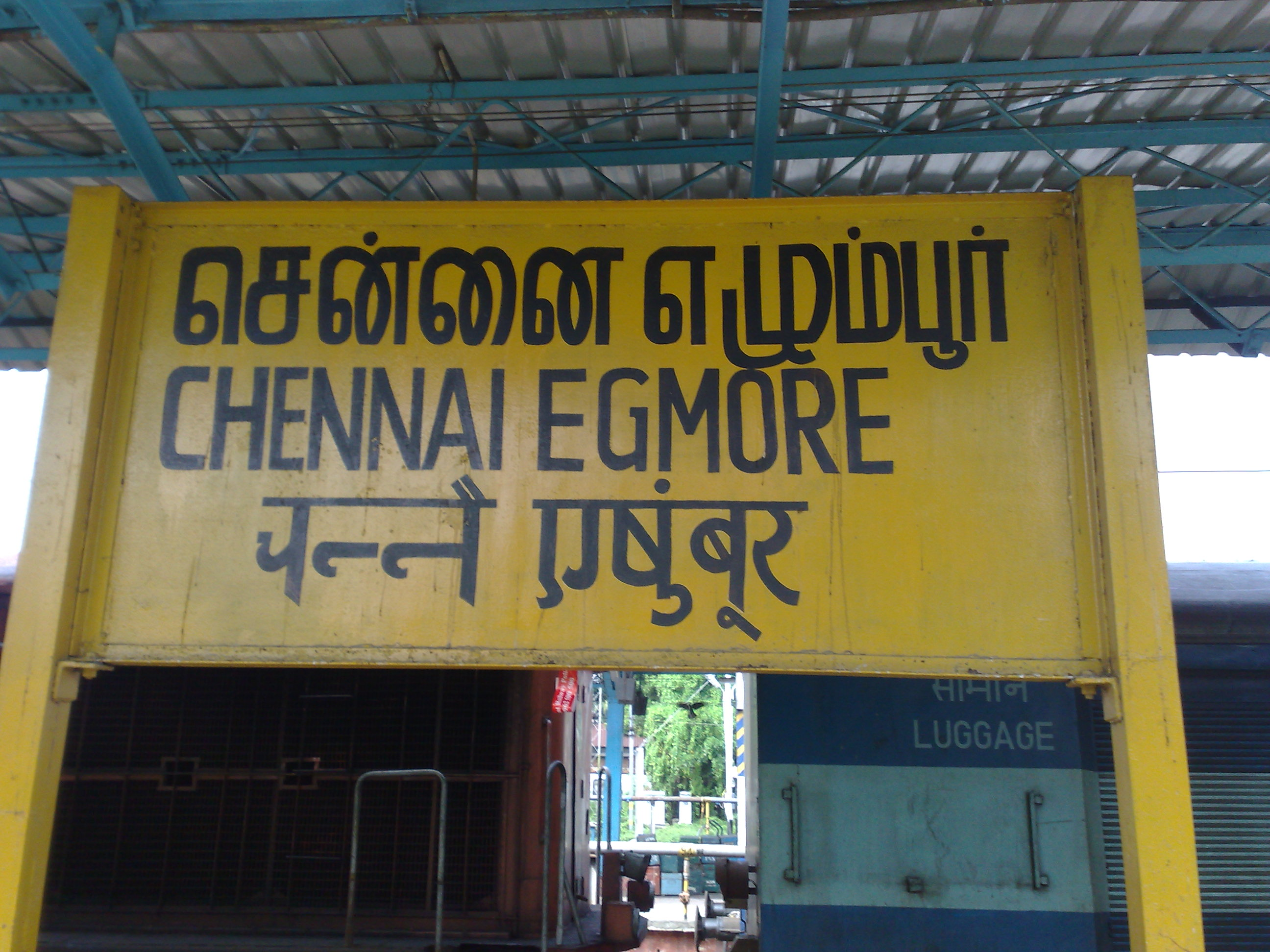 Chennai Egmore - Stationboard